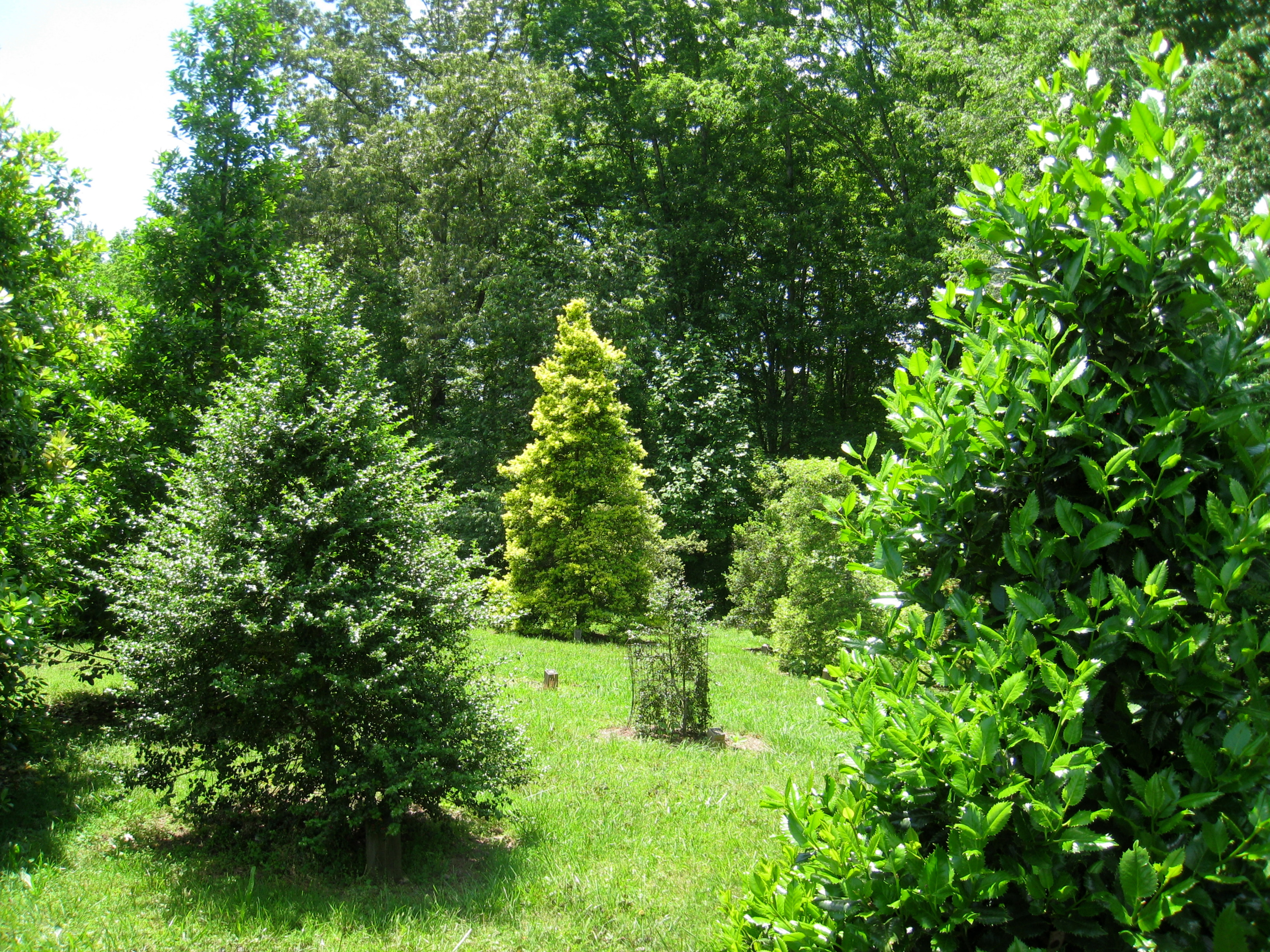 Holly (Ilex species) collection, at the University of Tennessee Arboretum, Oak Ridge, Tennessee, USA.